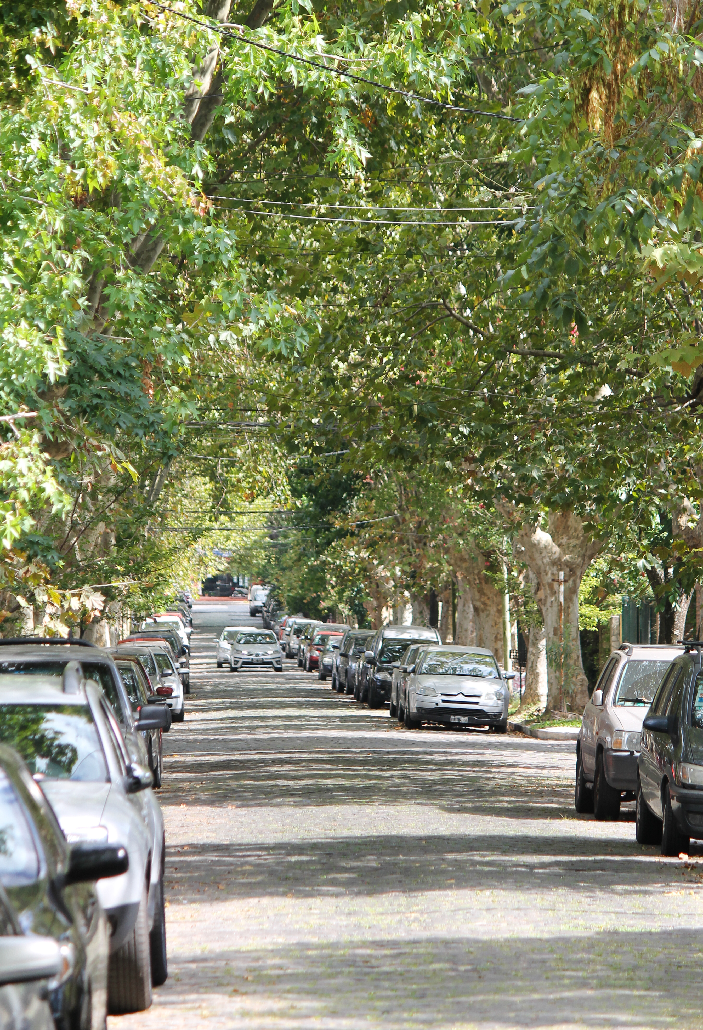 Ayacucho street in Florida, Buenos Aires Province